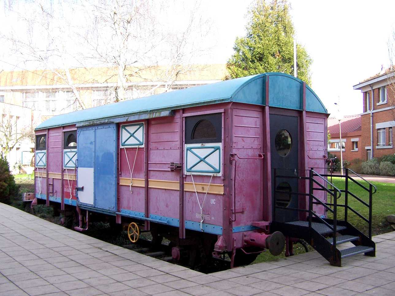 Old railway wagon in the town hall of Achères (Yvelines, France)